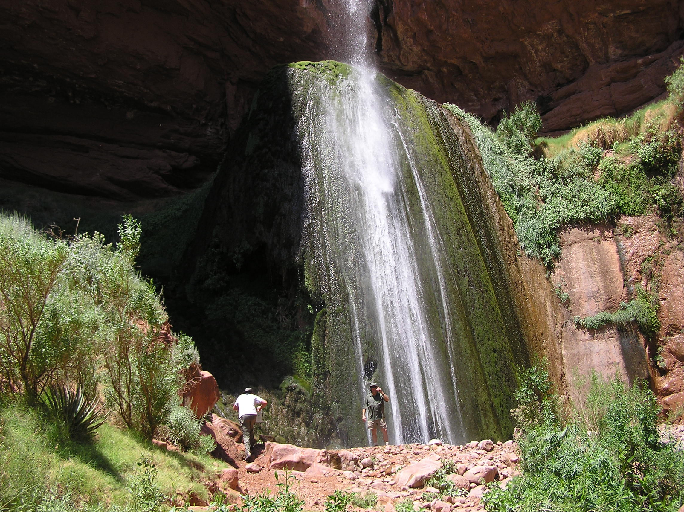 Ribbon Falls on the North Kaibab Trail, Grand Canyon National Park. Photo taken 23 July 2005.